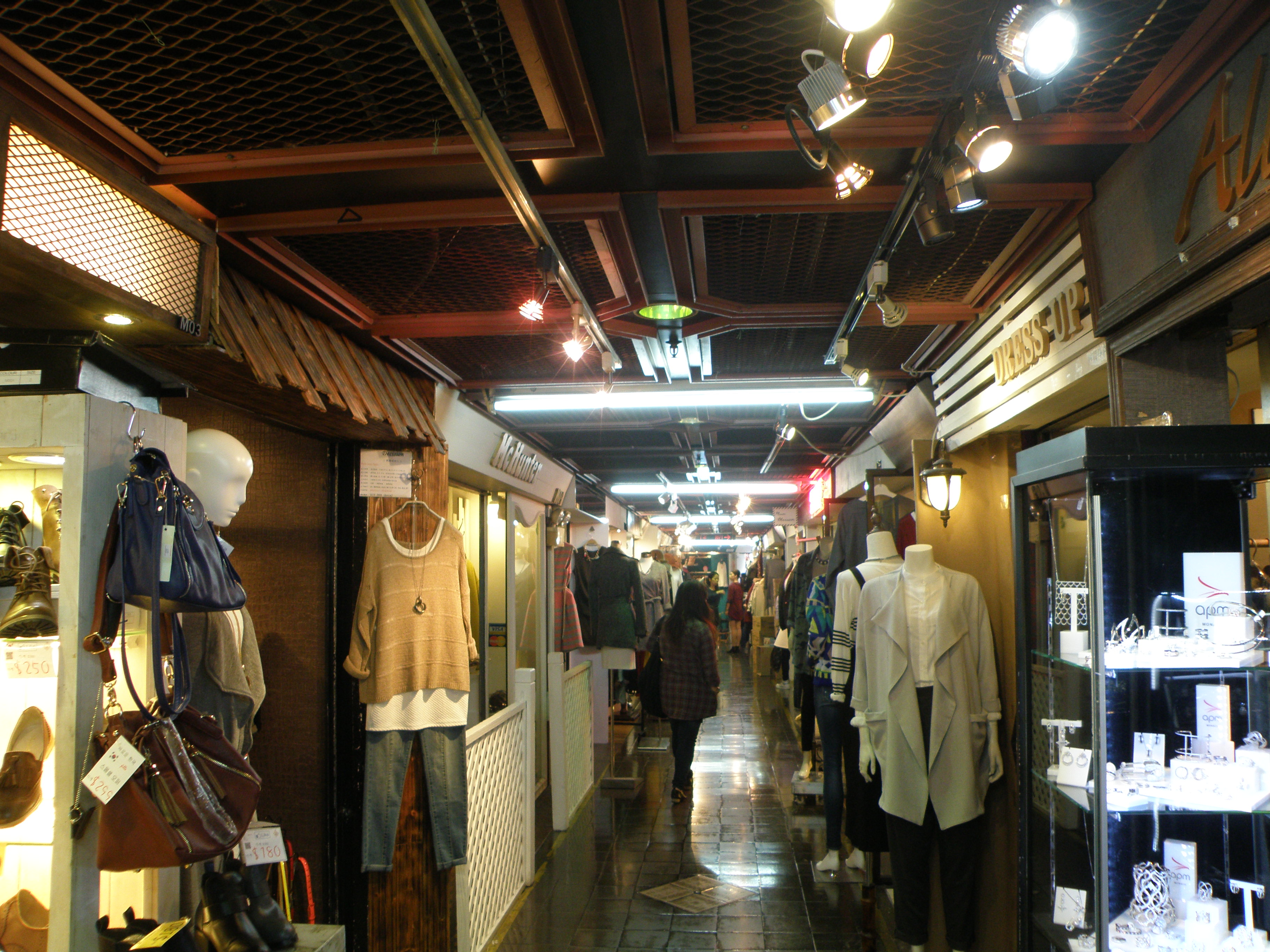 Allied Plaza in Prince Edward, Hong Kong.